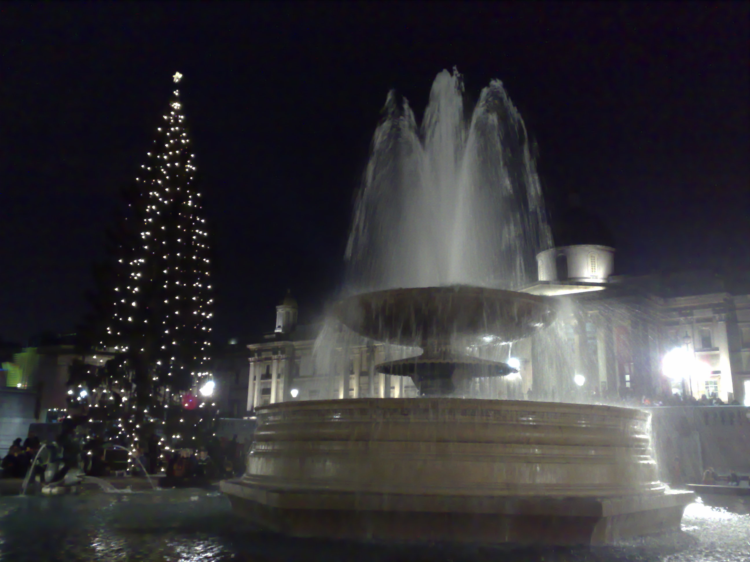 Trafalgar Square Christmas tree at night, 2008.